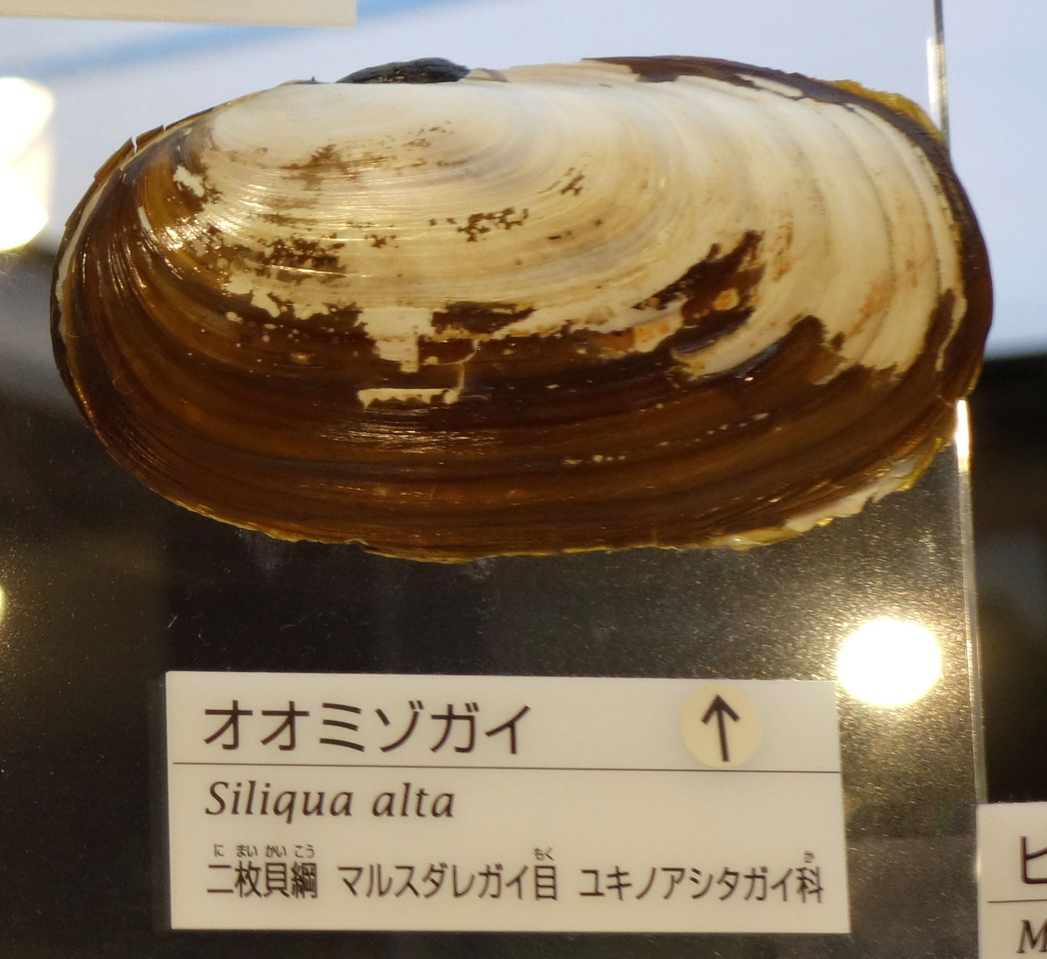 Exhibit in the National Museum of Nature and Science, Tokyo, Japan.